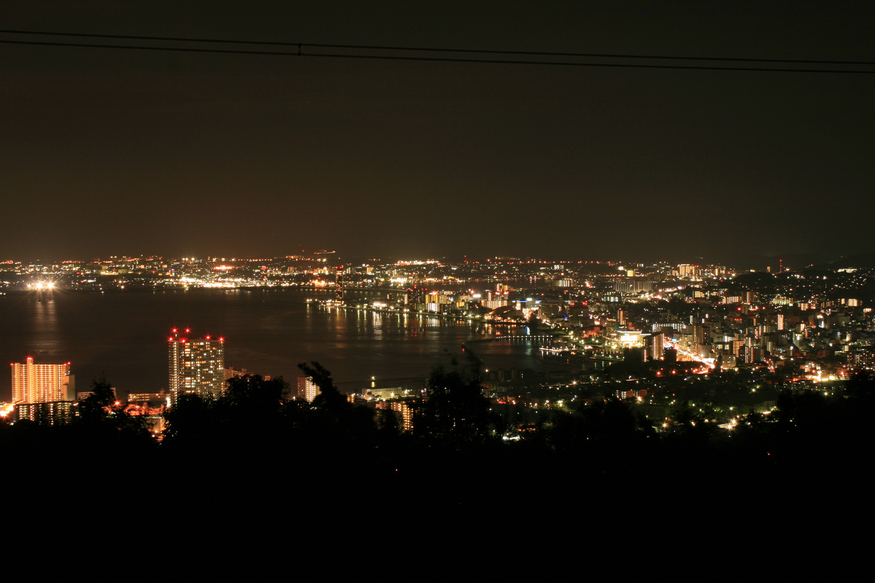 night view of Otsu City